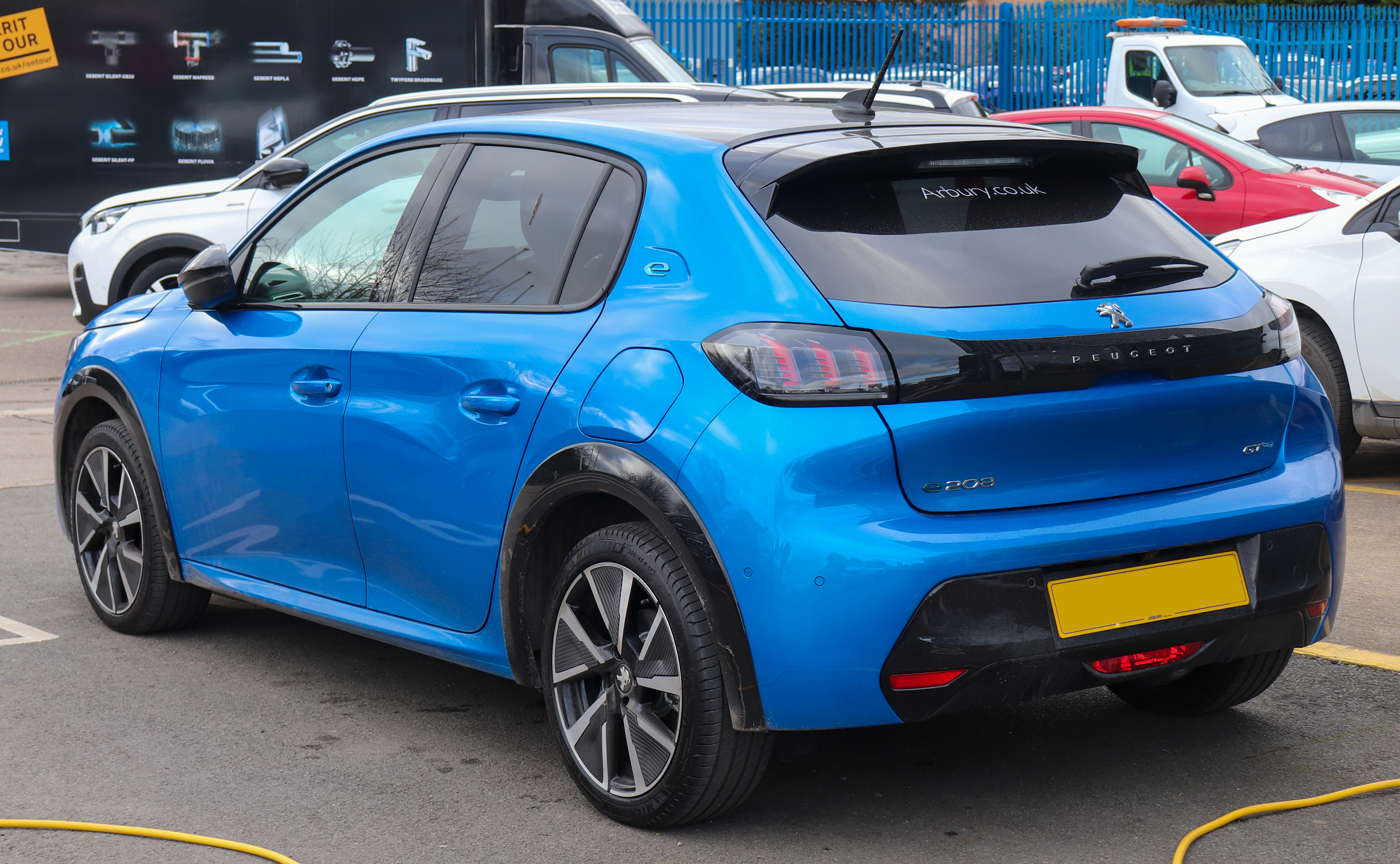 2020 Peugeot e-208 GT Rear Taken in Leamington Spa